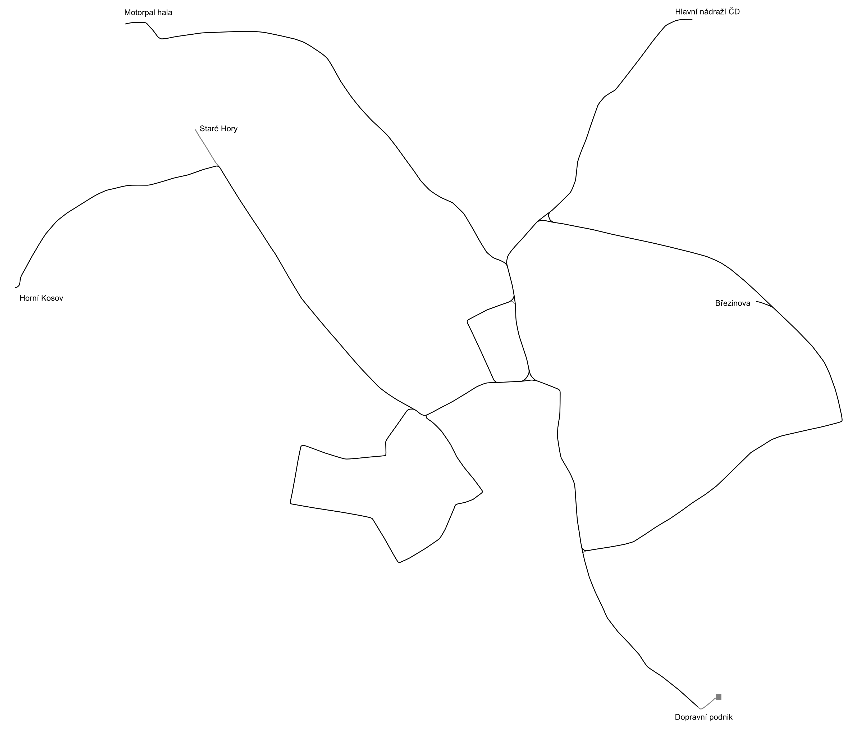 Trolleybus network in Jihlava (situation in 2009), Czech Republic